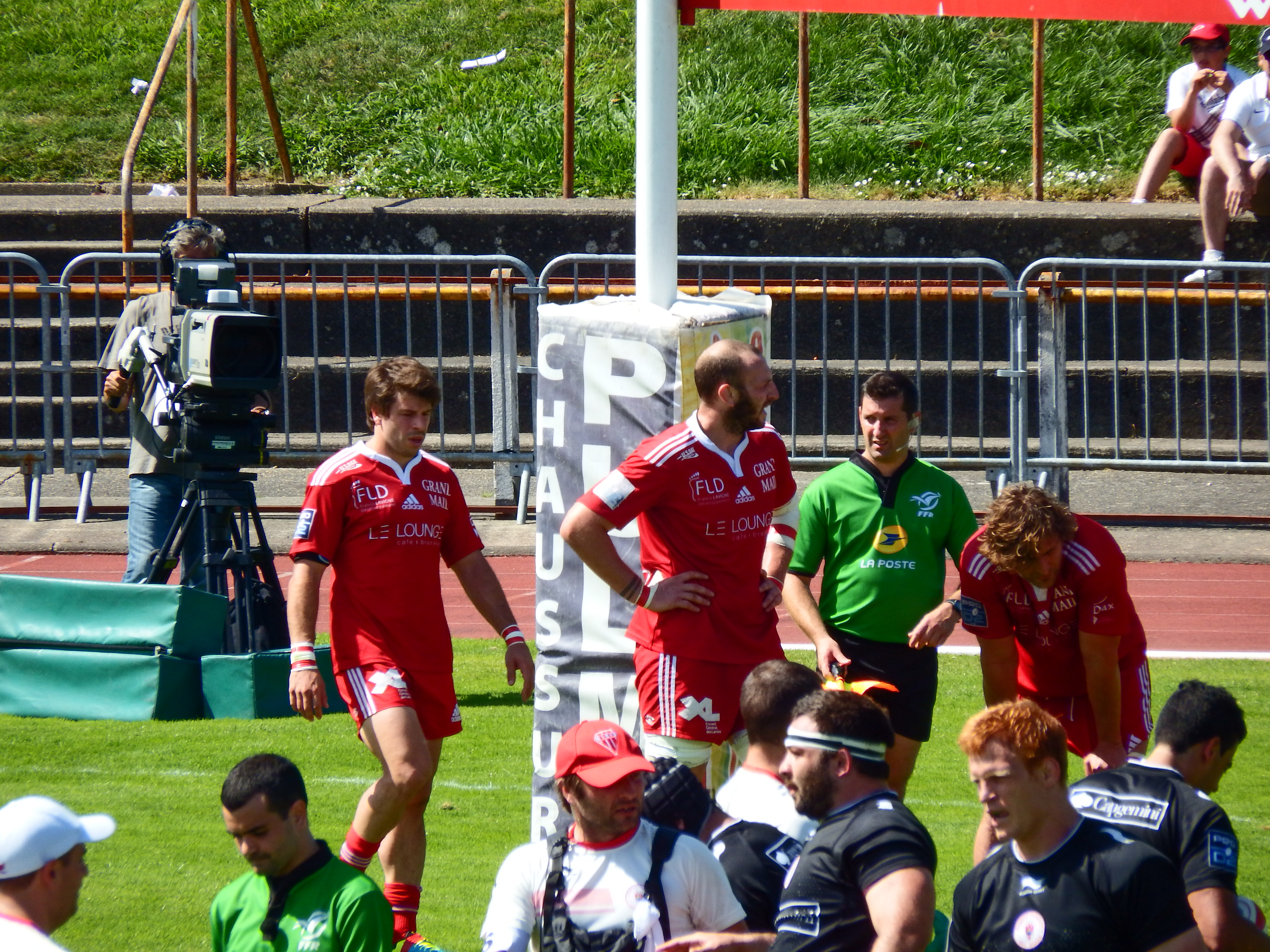 2014–15 Rugby Pro D2 season — 10 May 2015, Stade Maurice Boyau. Match between: US Dax — Biarritz Olympique